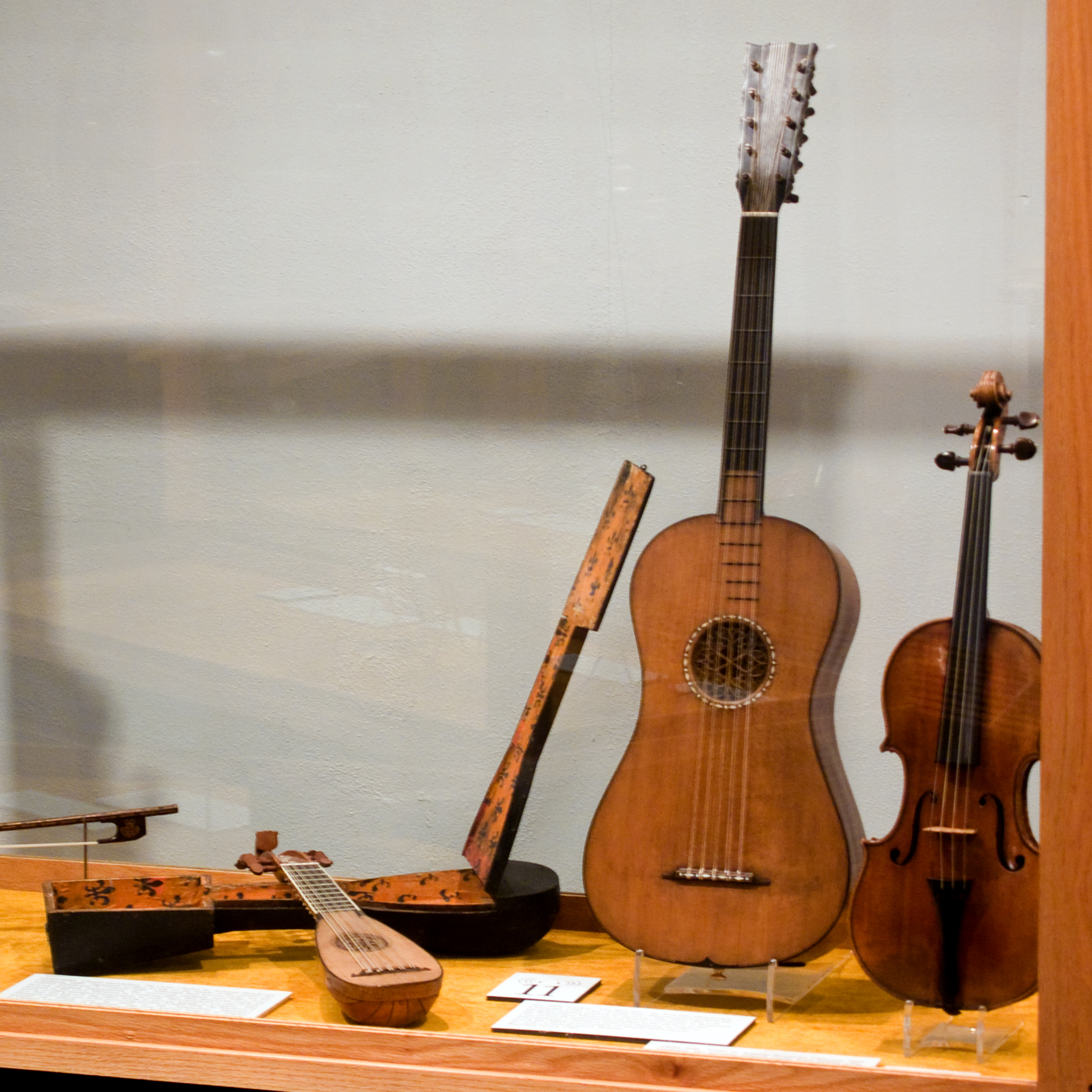 National Music Museum in Vermillion, SD where we visited last fall has a Stadivarius collection. There is a guitar, violin, cello (converted), and a mandolin with original case. These are all restored to playable condition.